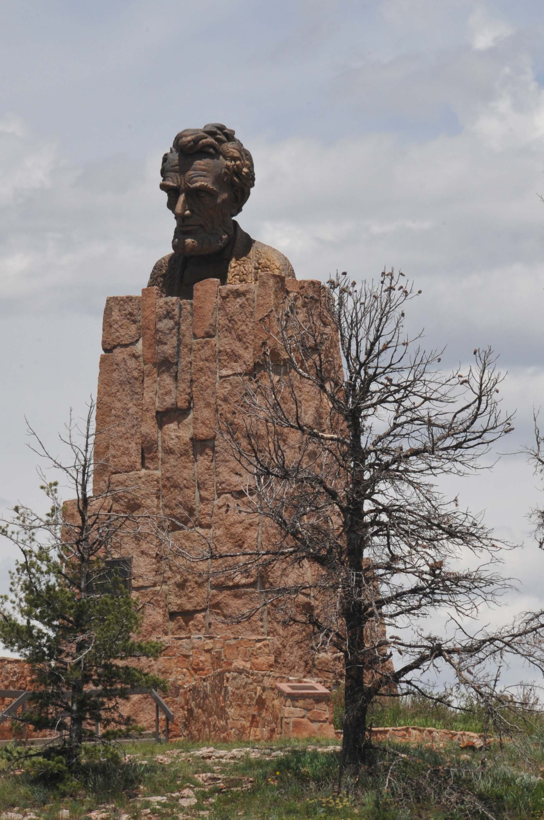 OFF I-80 NEAR LARAMIE (ALBANY COUNTY); LINCOLN'S HEAD WAS BUILT BY WYOMING'S PARKS COMMISSION TO HONOR LINCOLN'S 150TH BIRTHDAY. IT WAS SCULPTED BY ROBERT RUSSIN, A UNIVERSITY OF WYOMING ART PROFESSOR AND A LINCOLN FAN